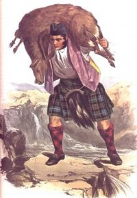 "Macrae". A plate illustrated by R. R. McIan, from James Logan's The Clans of the Scottish Highlands, published in 1845.